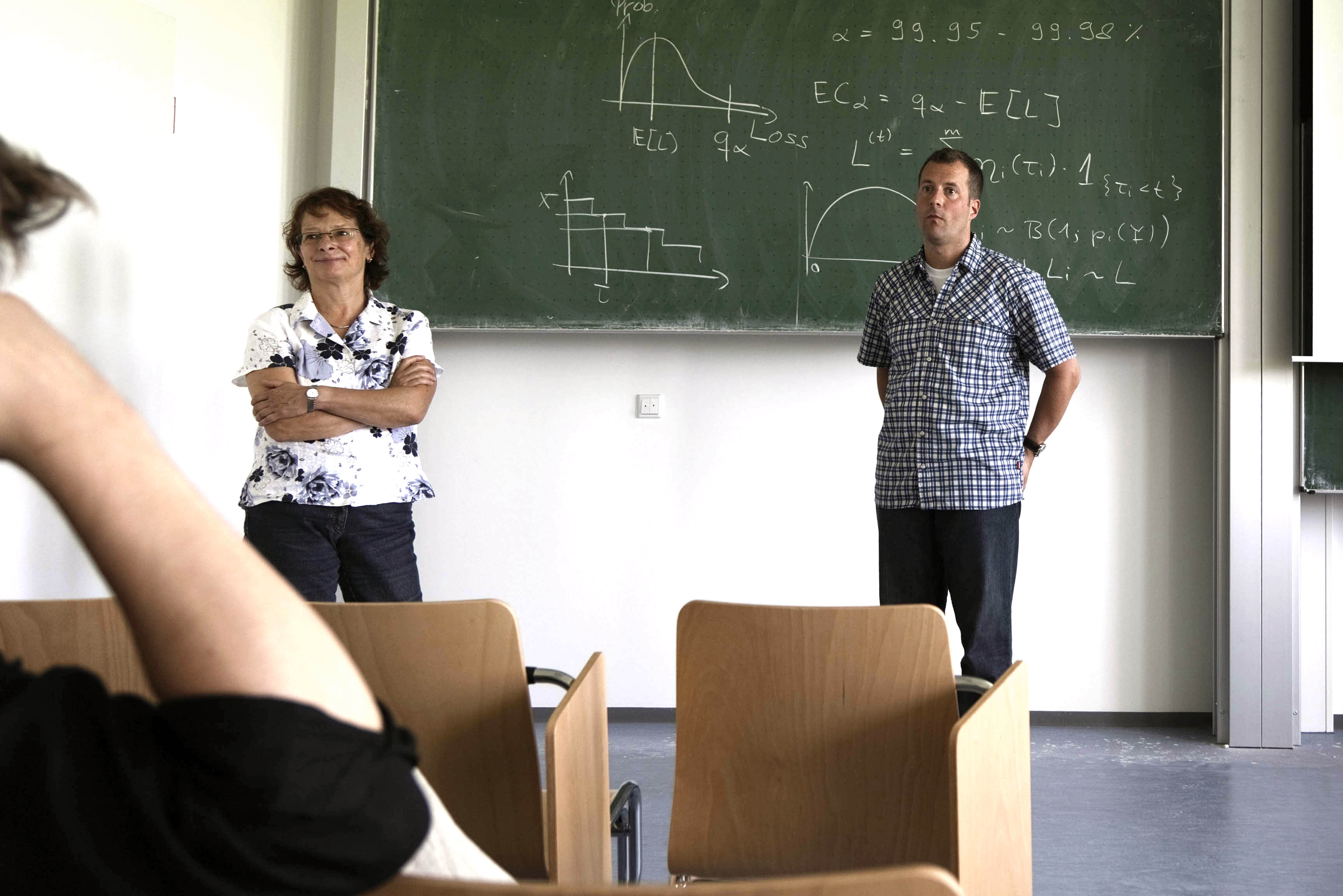 The german mathematician Prof. Dr. Claudia Klüppelberg with her collegue Dr. Christian Bluhm during a lecture about the financial crisis and stochastics at the Technische Universität München.